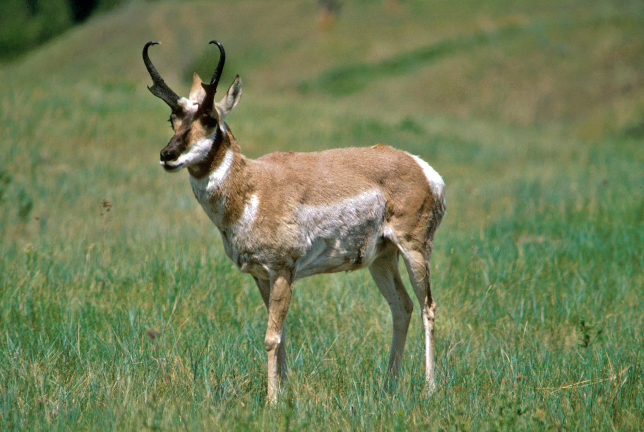 Pronghorn - male The original USFWS image has been edited by the uploader to reduce size and increase brightness.